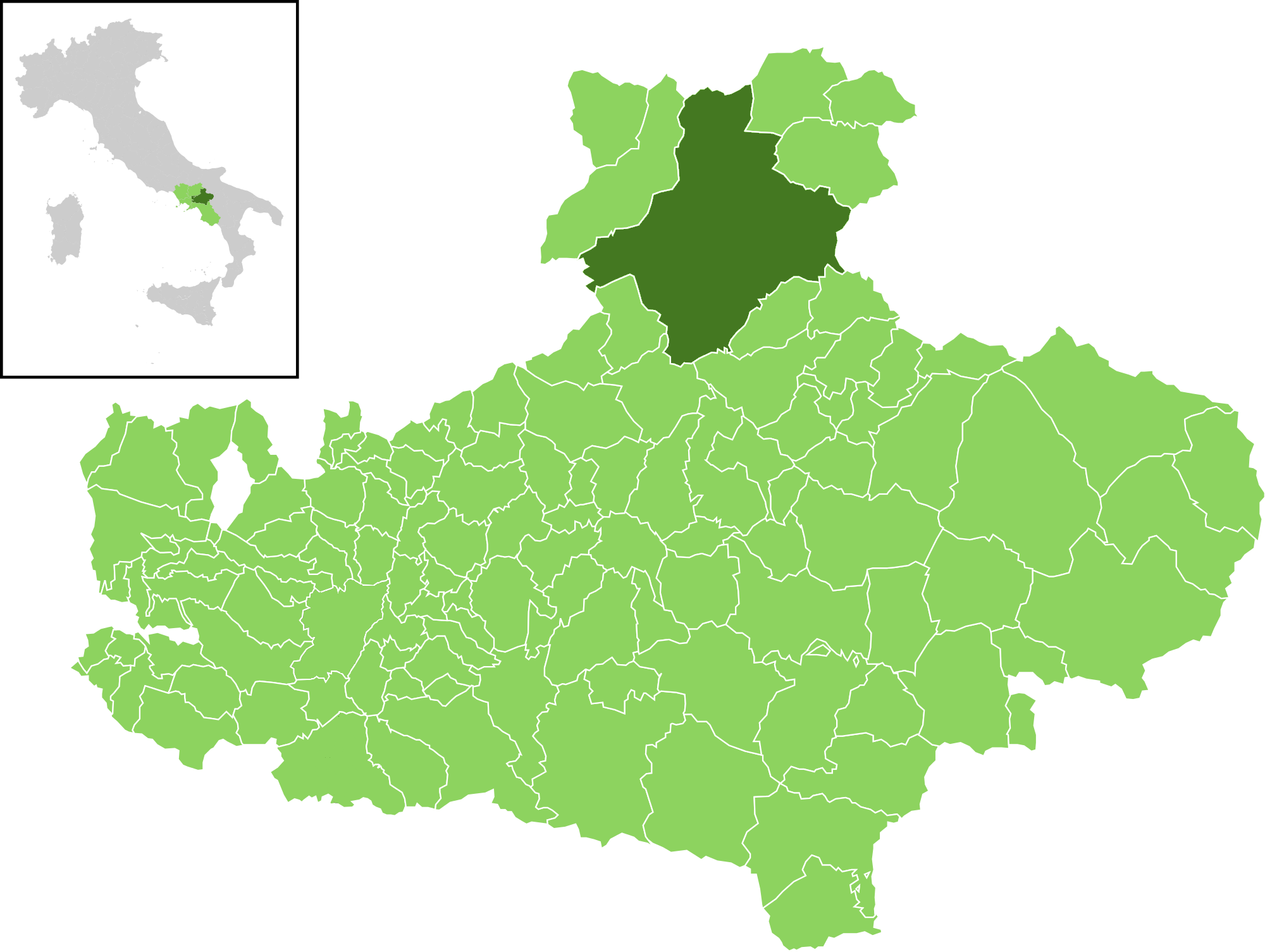 Location of the commune of Ariano Irpino within the Province of Avellino